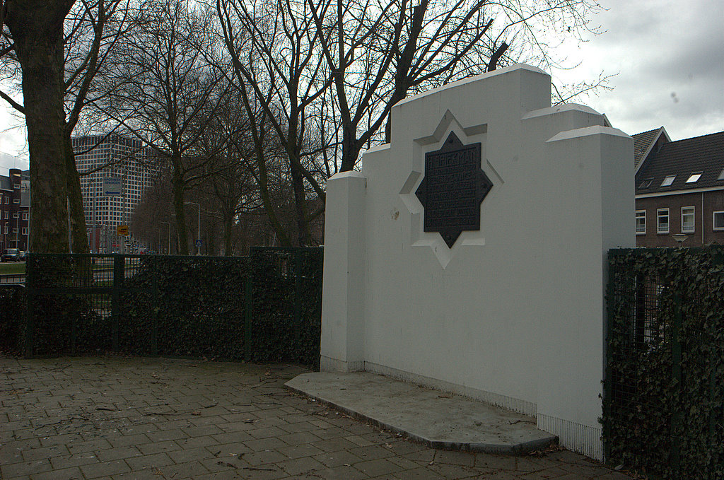 Monument for Hendrik Spiekman monument, Spangen, Rotterdam, The Netherlands